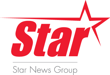 Star News Group logo